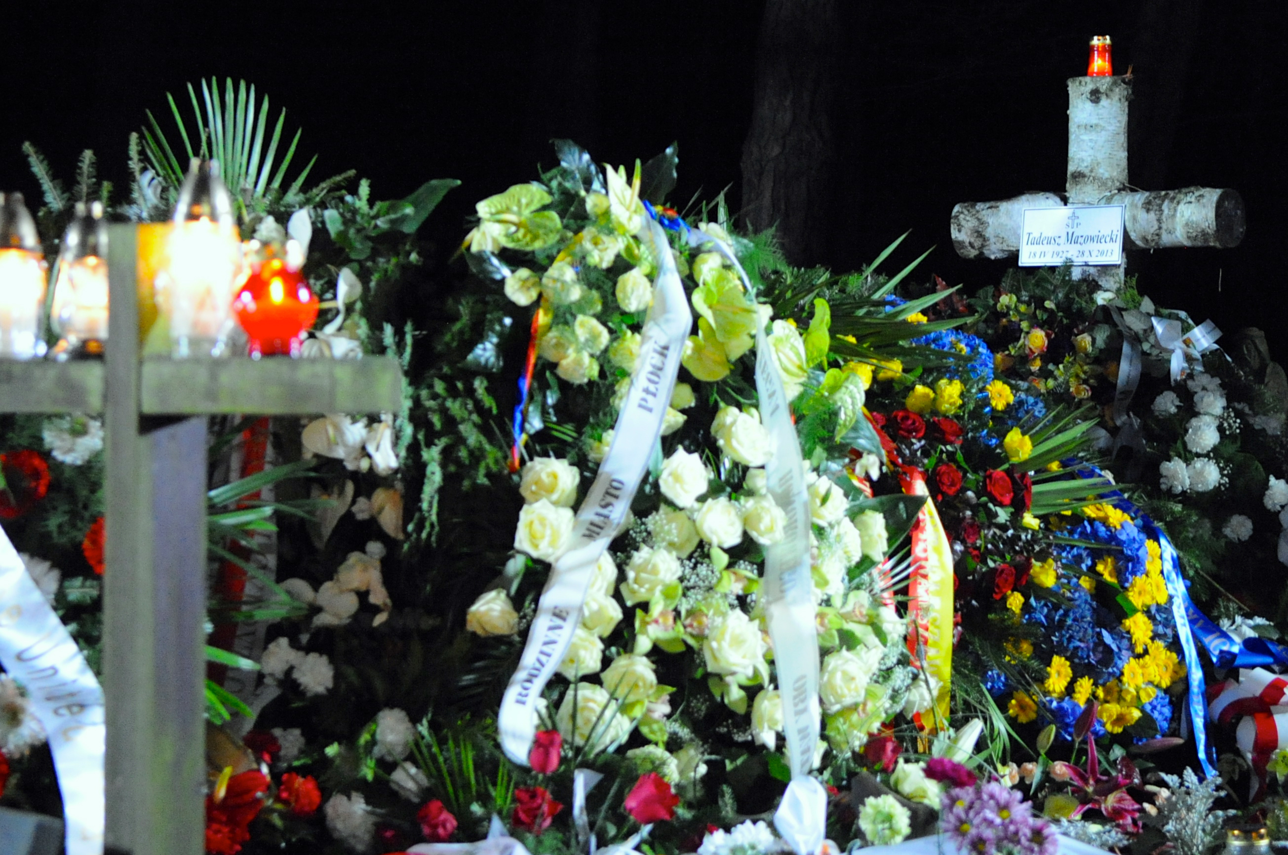 Flowers and a birch cross mark the gravesite of former Polish Prime Minister Tadeusz Mazowiecki as U.S. Secretary of State John Kerry arrives at Laski Cemetery outside Warsaw, Poland, to pay his respects on November 4, 2013. [State Department photo/ Public Domain]